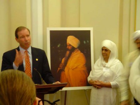 United Stares Congressman Tom Udall (left) at an event honoring Yogi Bhajan, spiritual leader of the Sikh religion (portrait in center). With the Congressmen is Bibiji, widow of Yogi. (right)